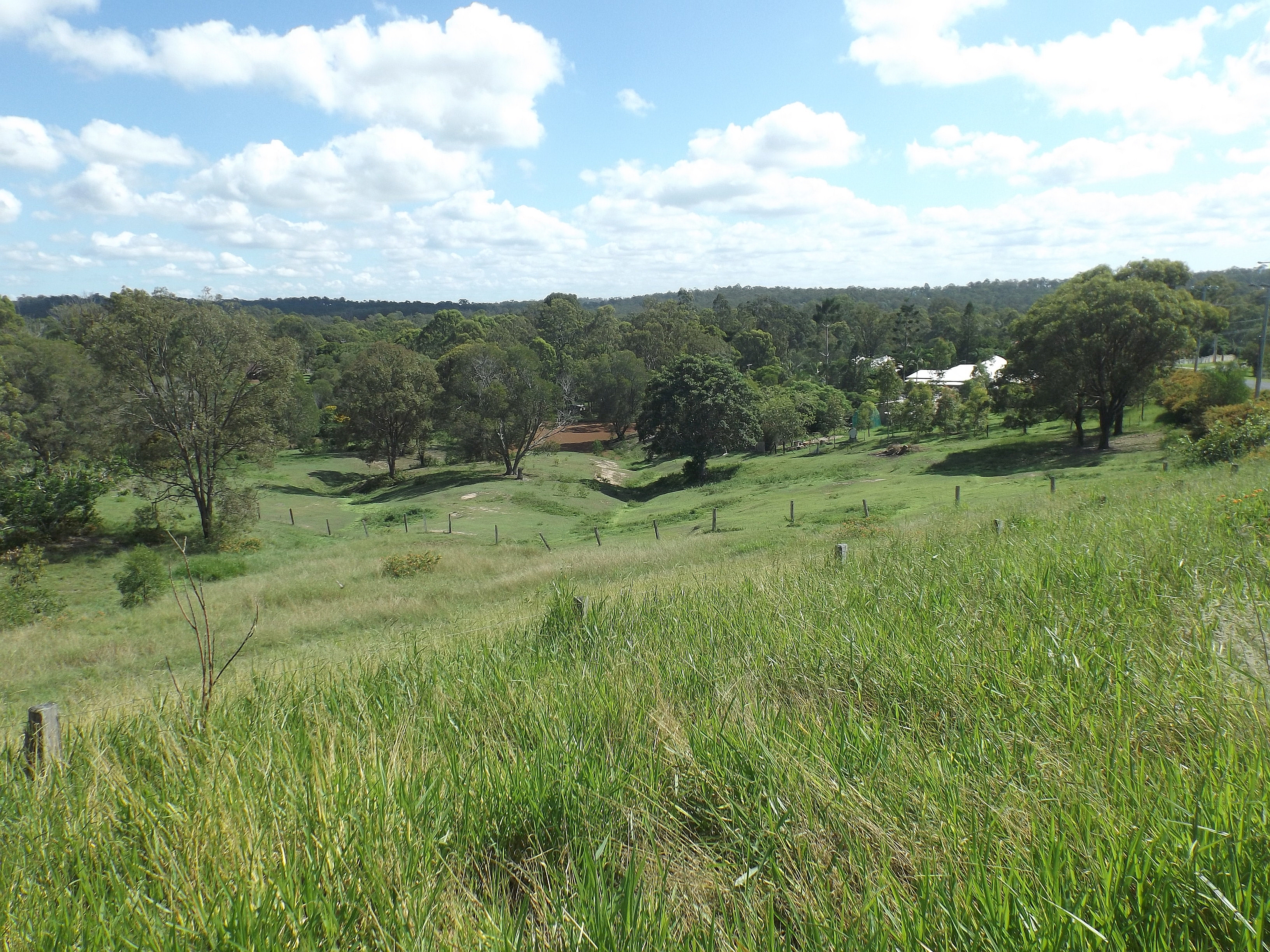 Photo of a dam and field along Majella Crescent at Bahrs Scrub, City of Logan, Queensland, Australia.